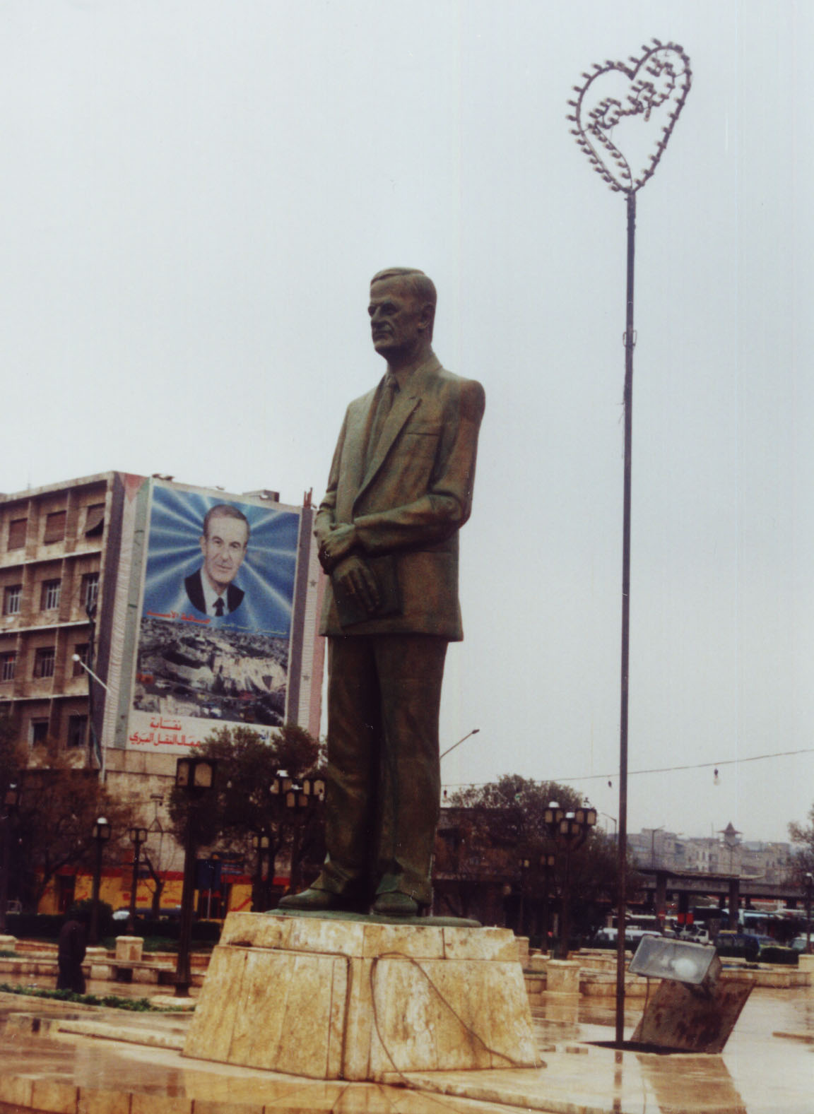 Cult of personality in Syria, Square in Aleppo displaying former president Hafez al-Assad